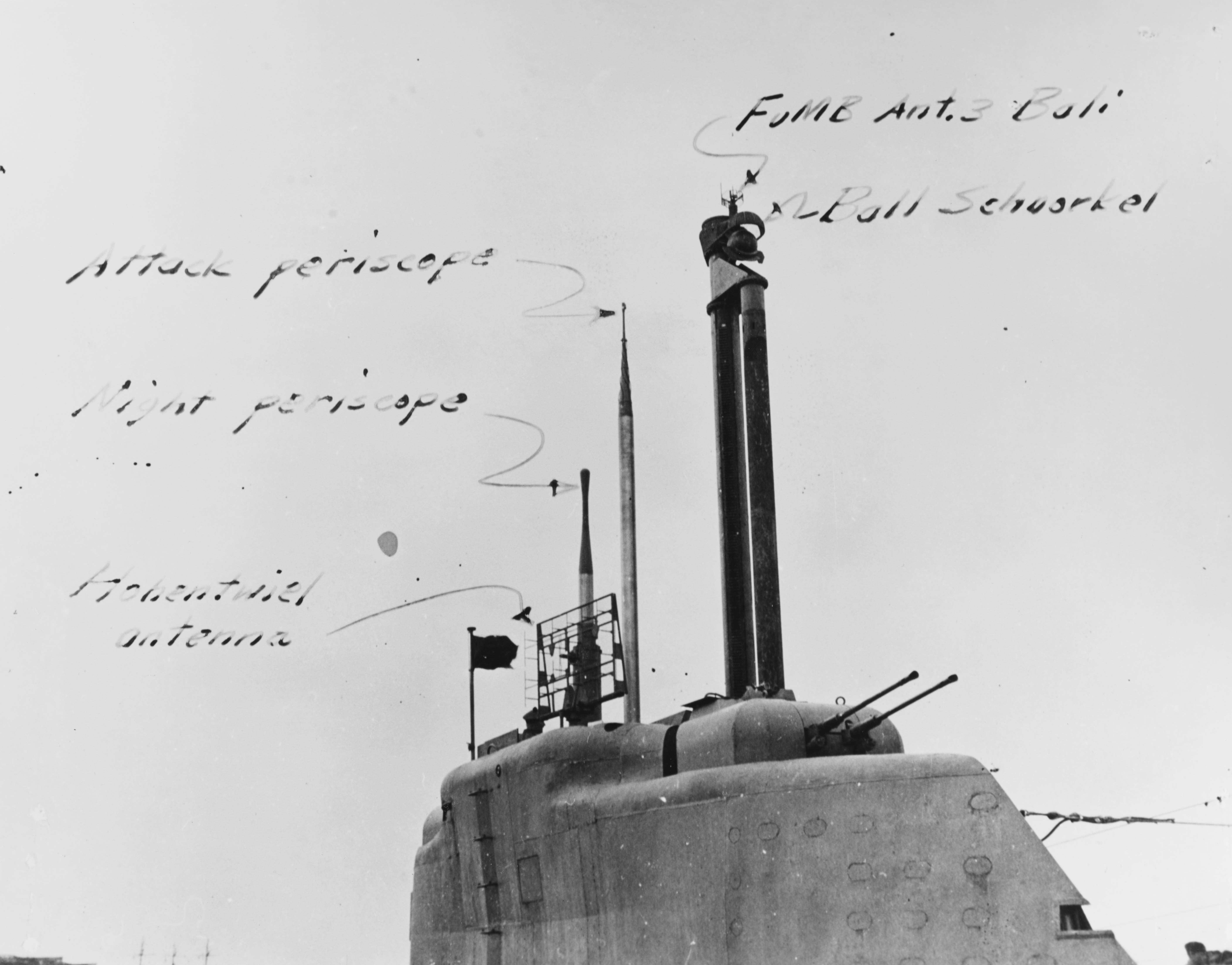 "Close up of the conning tower, shortly after VE Day - 1945", installed